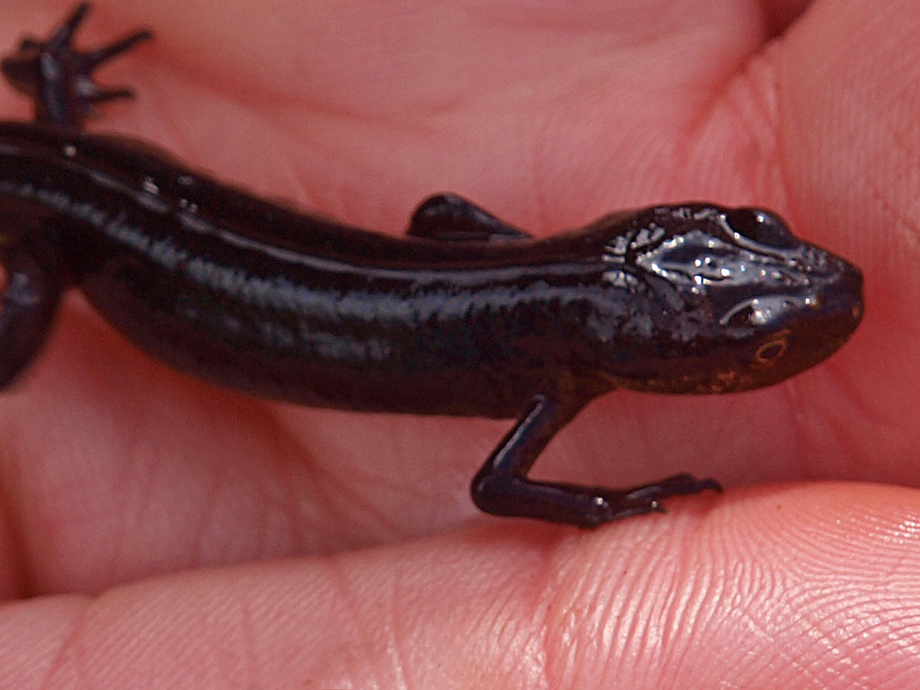 Gillies Hill, Cambusbarron, Scotland